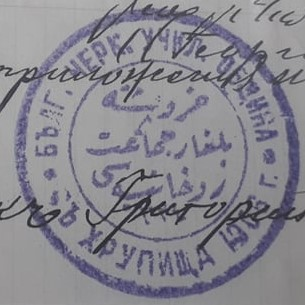 Hrupishta Bulgarian seal